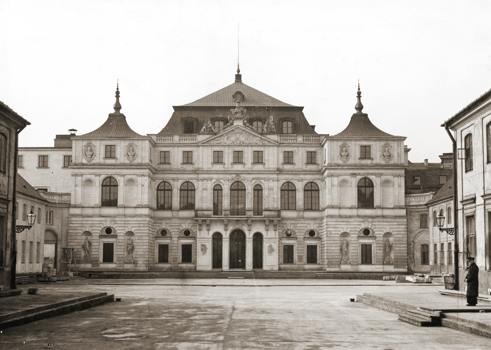 Brühl Palace, Warsaw 1936, non-existing palace, destroyed to the ground by Nazi-Germans in 1944. before WW II - Ministry of Foreign Affairs of Poland main building